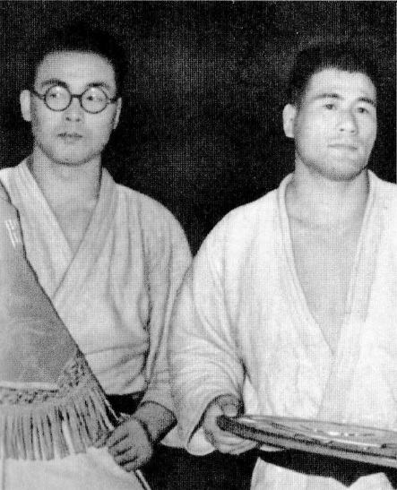 Japanese judoka, Takahiko Ishikawa (left) and Masahiko Kimura (right), after winning the All-Japan Judo Championships in 1949. ※In 1949, Both achieved championship at the same time.